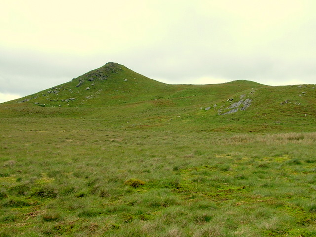 Domen Milwyn At 554 metres this small peak is one of the few distinctive features in this rather bleak, remote area.